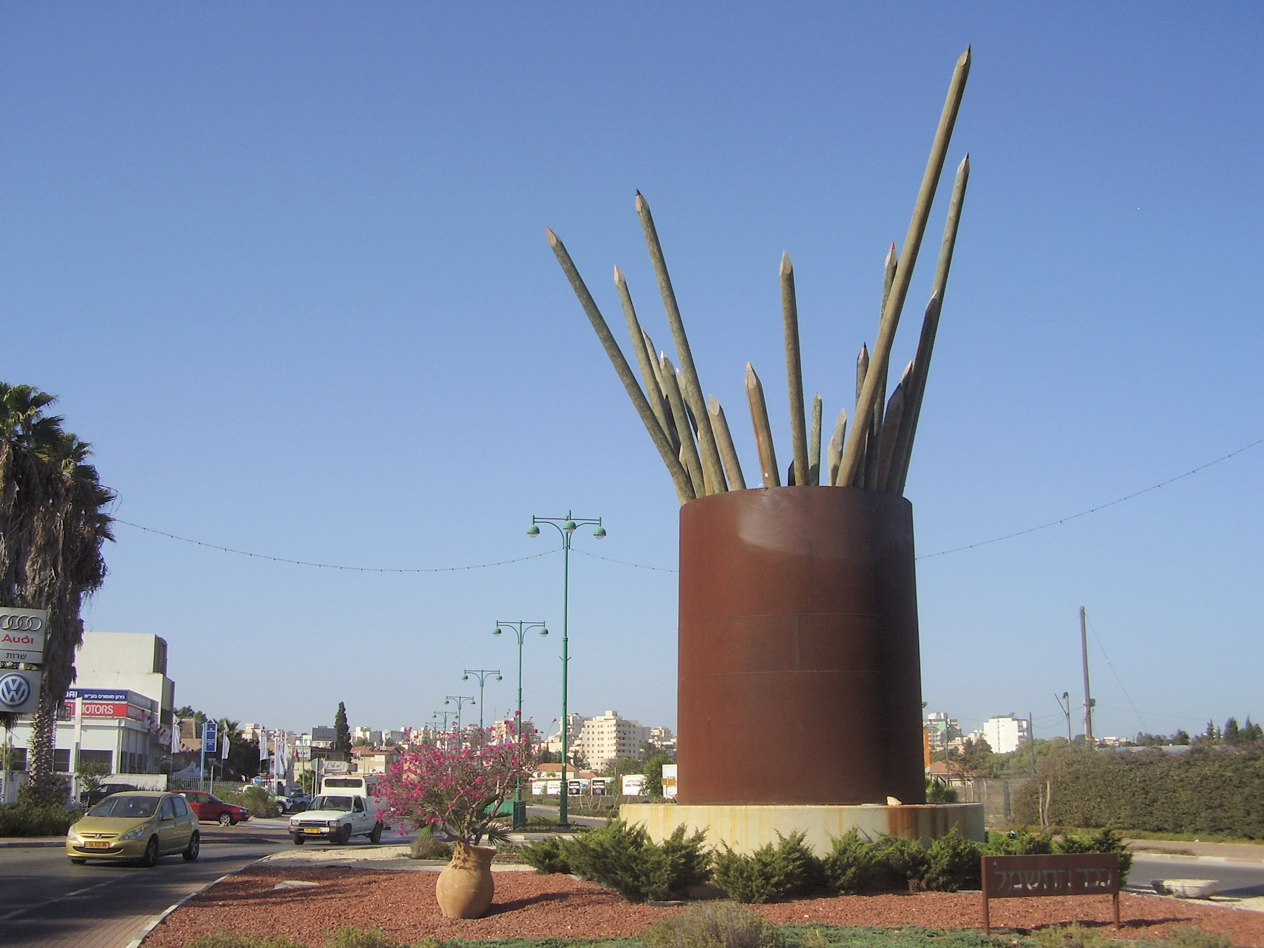 The Hashaml (electricity) circle, and Zahal street, Hadera, Israel